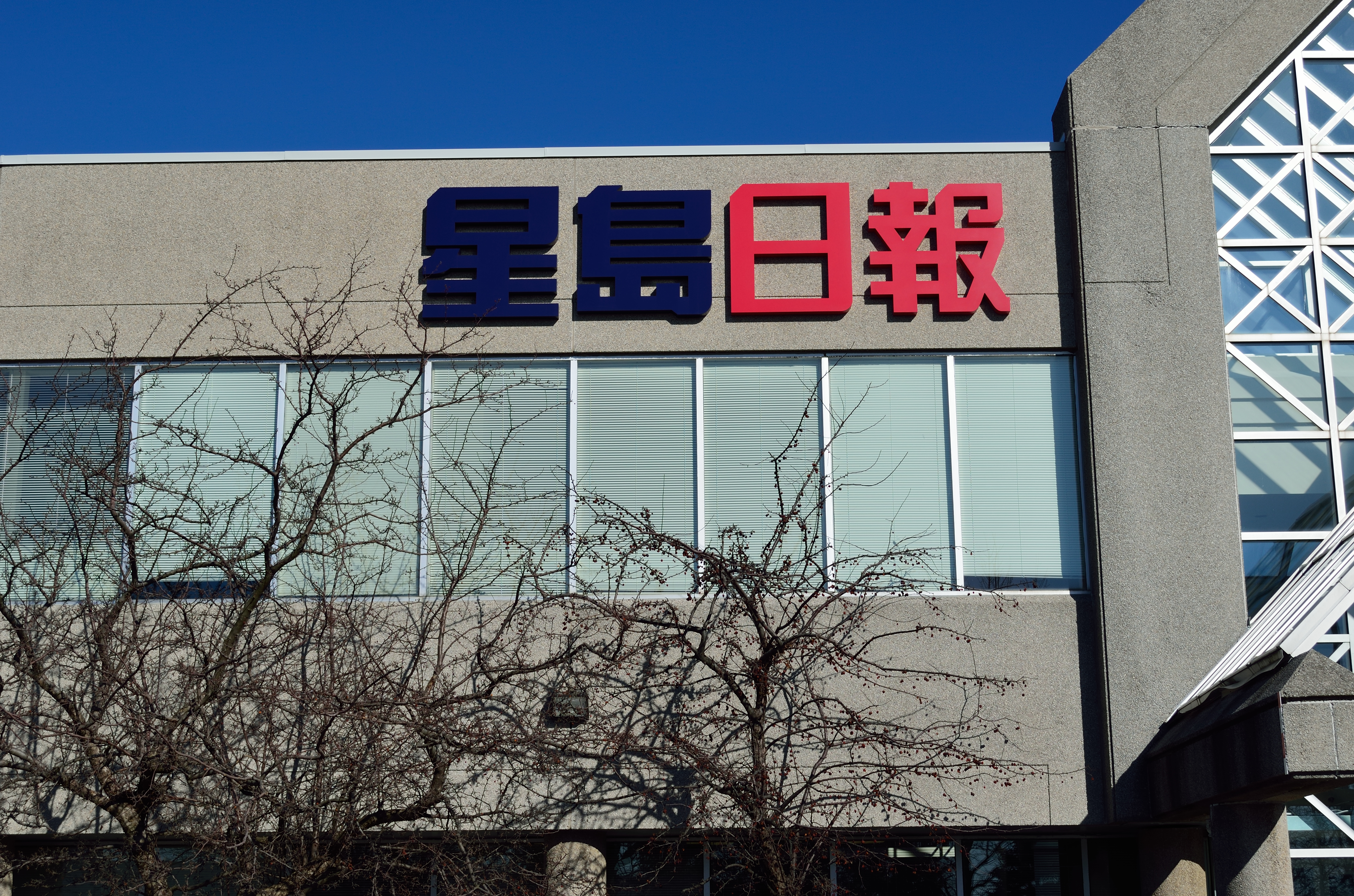 Sing Tao Daily (Toronto) - Address: 221 Whitehall Drive Markham, ON L3R 9T1